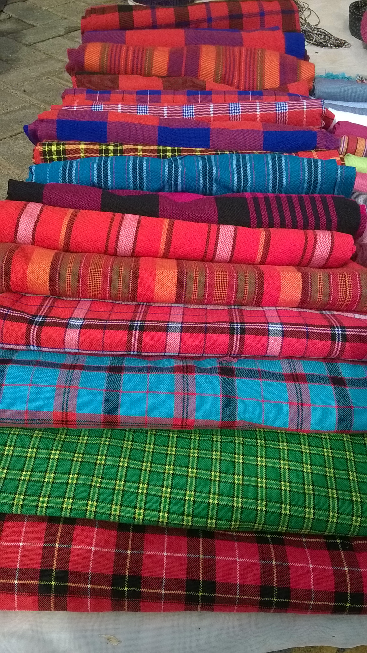 This is an image of Cultural Fashion or Adornment from Kenya